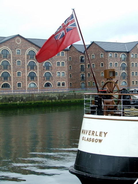 Red Ensign Flying from the stern of PS Waverley at James Watt Dock. The 'warehouses' in the background are actually newly built blocks of flats.